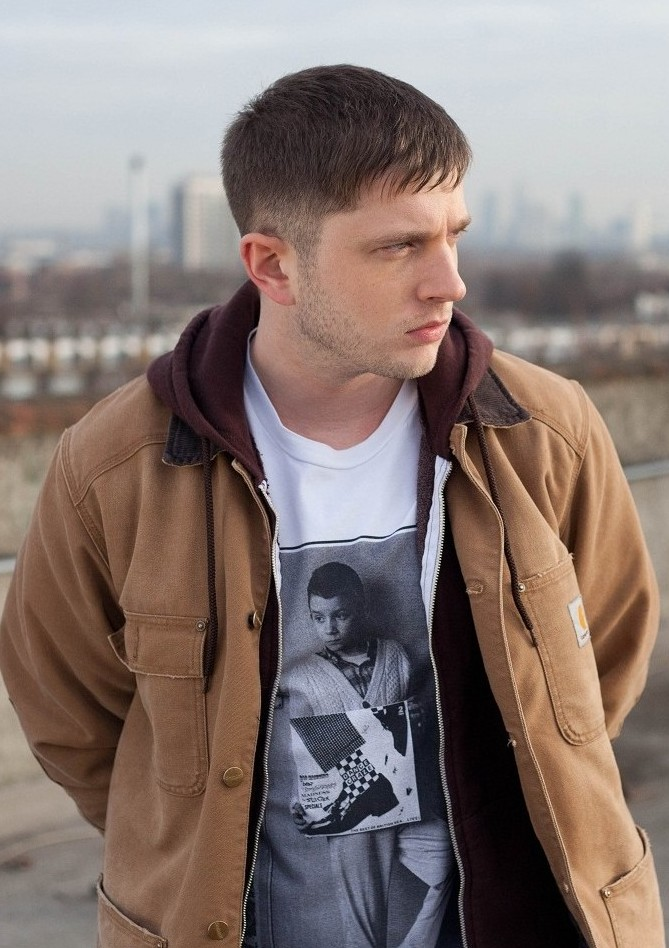 Image of British singer Plan B